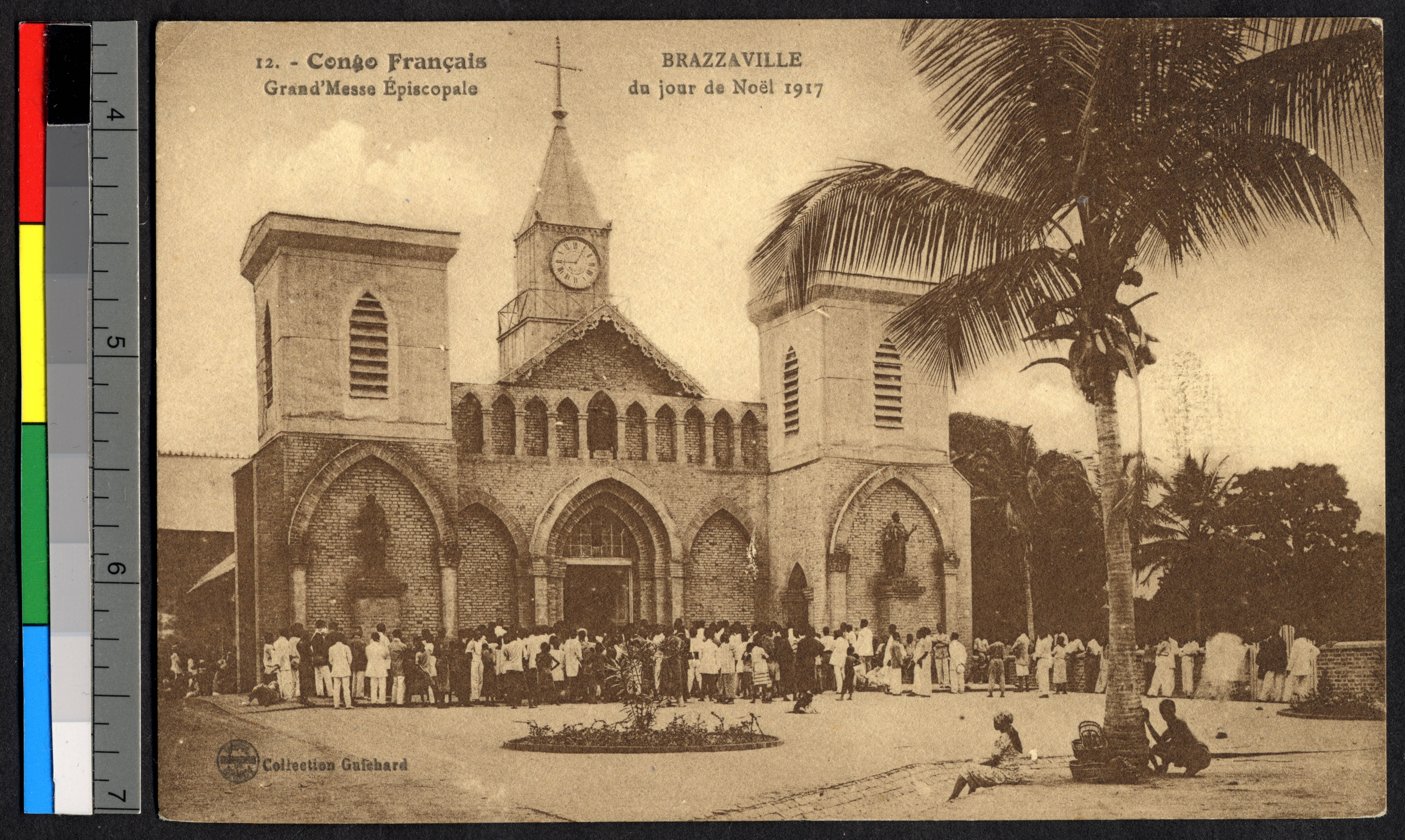 People gathering in front of a cathedral, Brazzaville, Congo, ca.1917 "12 - Congo Francais Grand'Messe Eposcipale" "Brazzaville de jour de Noel 1917" A crowd is gathering before the Catholic cathedral in Brazzaville. The back of the postcard is blank. Subject (aat): general views Photographer: Unidentified Filename: IMP-YDS-RG101-033-0000-0007 Coverage date: 1917 Subject (unesco): Churches; Buildings Part of collection: International Mission Photography Archive, ca.1860-ca.1960 Type: images Part of subcollection: Photographs from the Yale Divinity School Library, New Haven, Connecticut, ca.1880-1950 Repository name: Yale University. Divinity School. Day Missions Library Archival file: impa_Volume306/IMP-YDS-RG101-033-0000-0007.tiff Geographic subject (city or populated place): Brazzaville Repository address: Yale University Divinity School Library, 409 Prospect Street, New Haven, CT 06511 Geographic subject (country): Congo (Brazzaville) Geographic subject (continent): Africa Rights: Yale University. Divinity School. Day Missions Library Part of series: Yale Divinity Library Special Collections; Missionary Postcard Collection Repository Date created: 1917 Publisher (of the digital version): University of Southern California. Libraries Format (aat): photographic postcards, 9 x 14 cm.; photographs Legacy record ID: impa-m68864 Access conditions: File: YDS/RG101/033/0000/0007